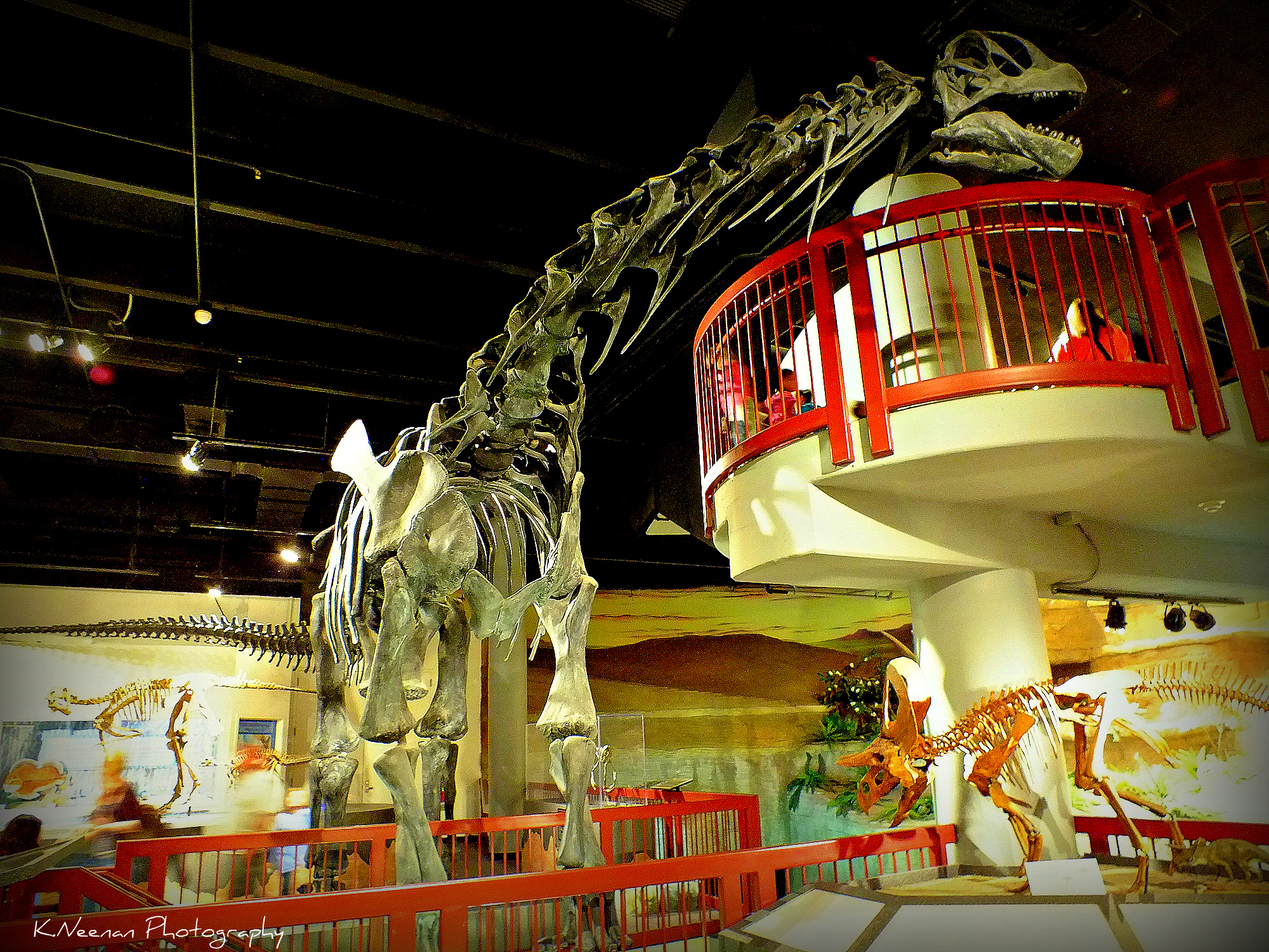 Camarasaurus skeleton, located in Dinosaur Hall at the Arizona Museum of Natural History